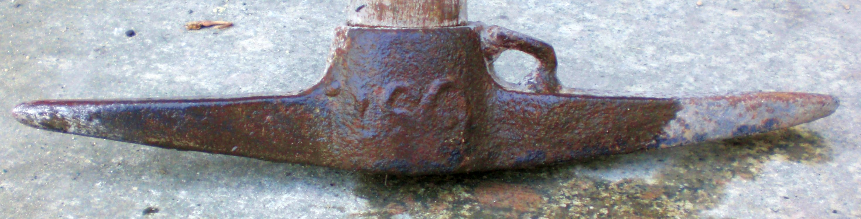 Miner's pick with welded number.